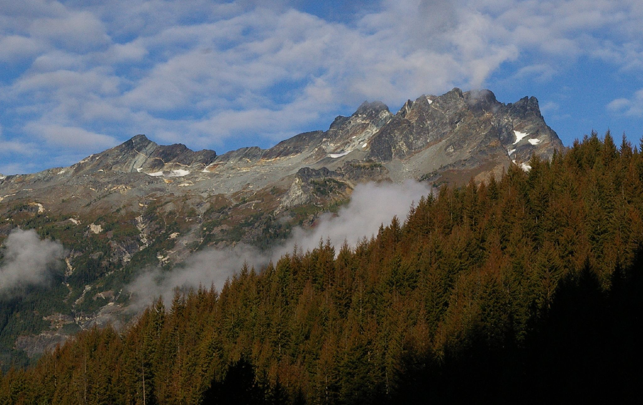 Buck Mountain, southeast aspect